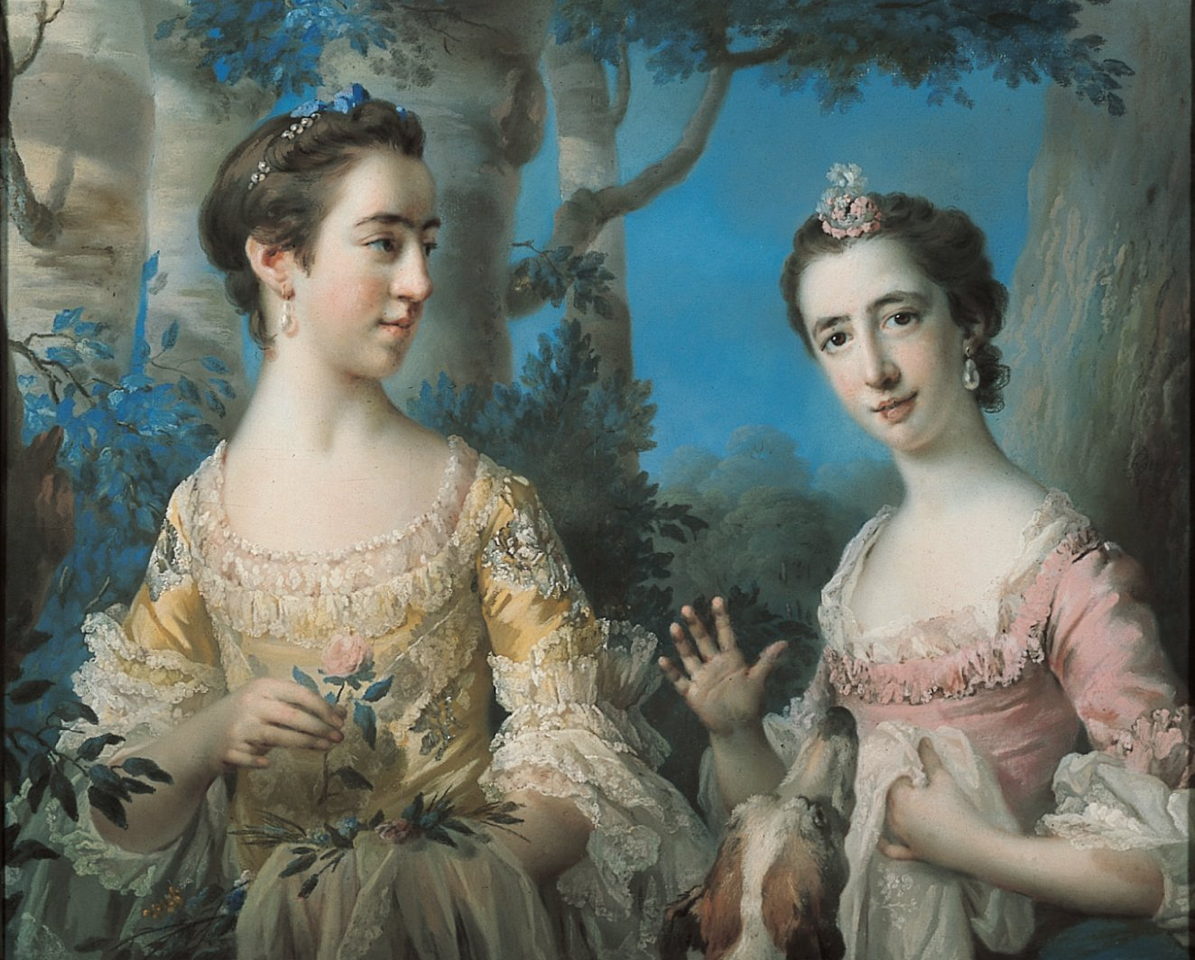 Double Portrait by Francis Cotes, 1757, pastel on blue laid paper mounted on canvas, 27 × 33 1/16 in. (68.6 × 83.9 cm.), Speed Art Museum